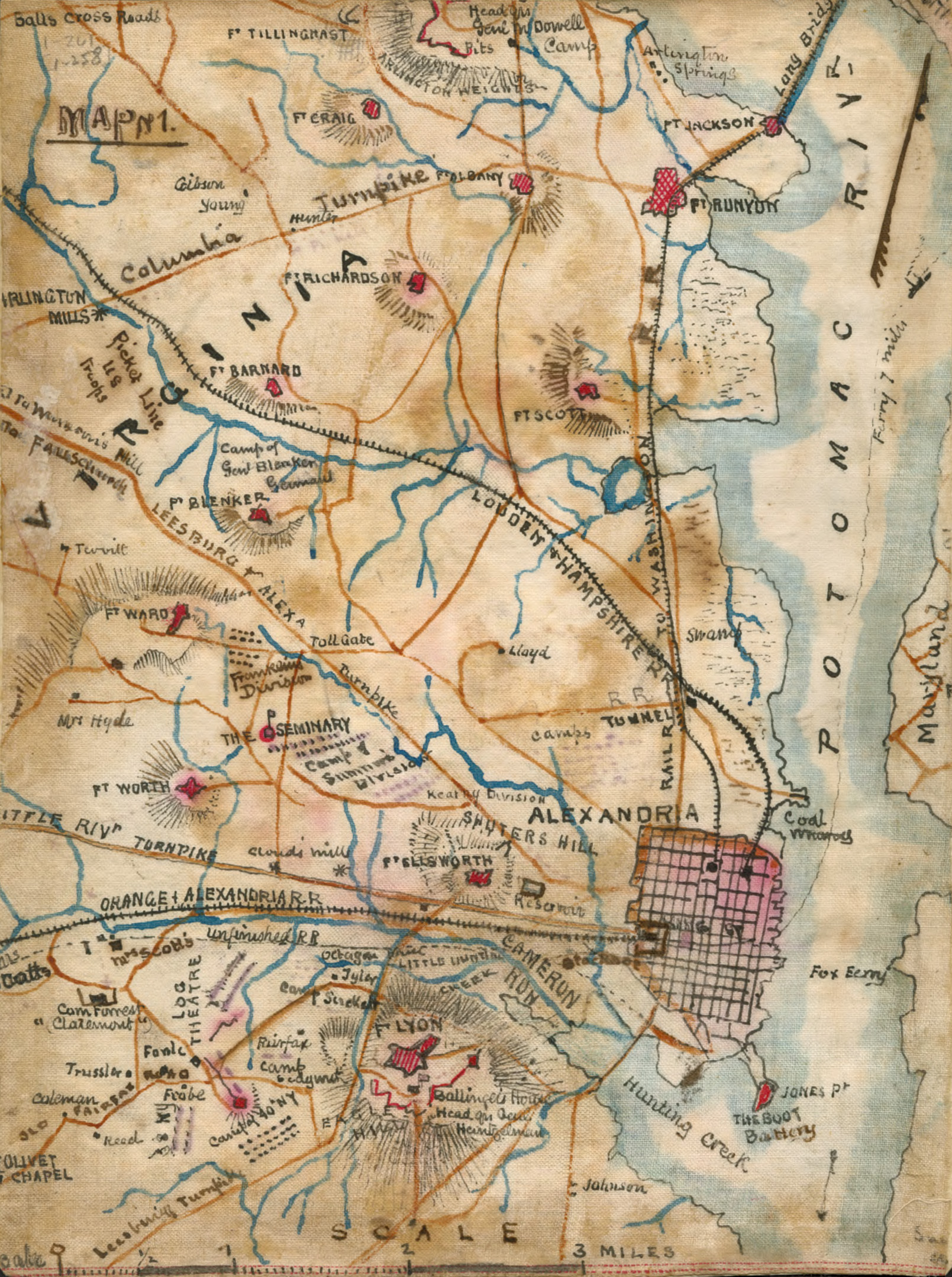 Illustrates Alexandria's central position in the defense of Washington, where at least 12 outlying forts surrounded the city. Military camps of various Union officers such as Samuel Peter Heintzelman are indicated on this ca. September 1861 map.